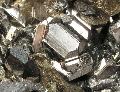 Galena, Pyrrhotite Locality: Stari Trg Mine, Trepča complex, Trepča valley, Kosovska Mitrovica, Kosovo (Locality at ) Size: small cabinet, 6.6 x 5.2 x 3.2 cm Pyrrhotite with Galena Superb cluster of at least eight well-defined Pyrrhotite crystals resting on a matrix of excellent Sphalerite crystals and crystalline-to-massive Galena. The largest Pyrrhotite is 2.8 cm across with excellent luster and striations. The habit is fantastic, and to have the main Pyrrhotite sitting up on matrix in such an unusually isolated manner creates incredible aesthetics for this piece.